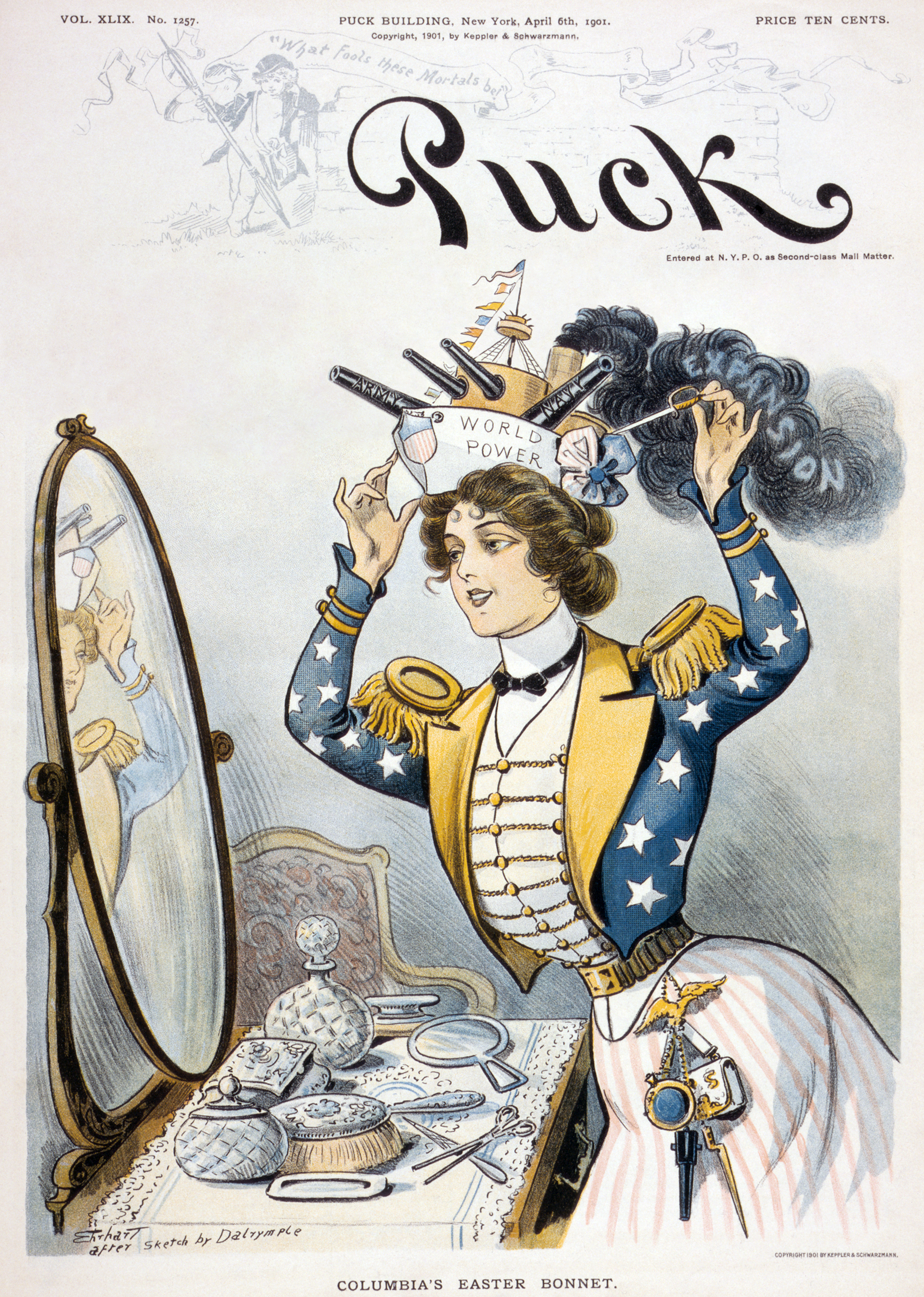 Cover of Puck magazine, 6 April 1901. "Columbia's Easter bonnet / Ehrhart after sketch by Dalrymple."